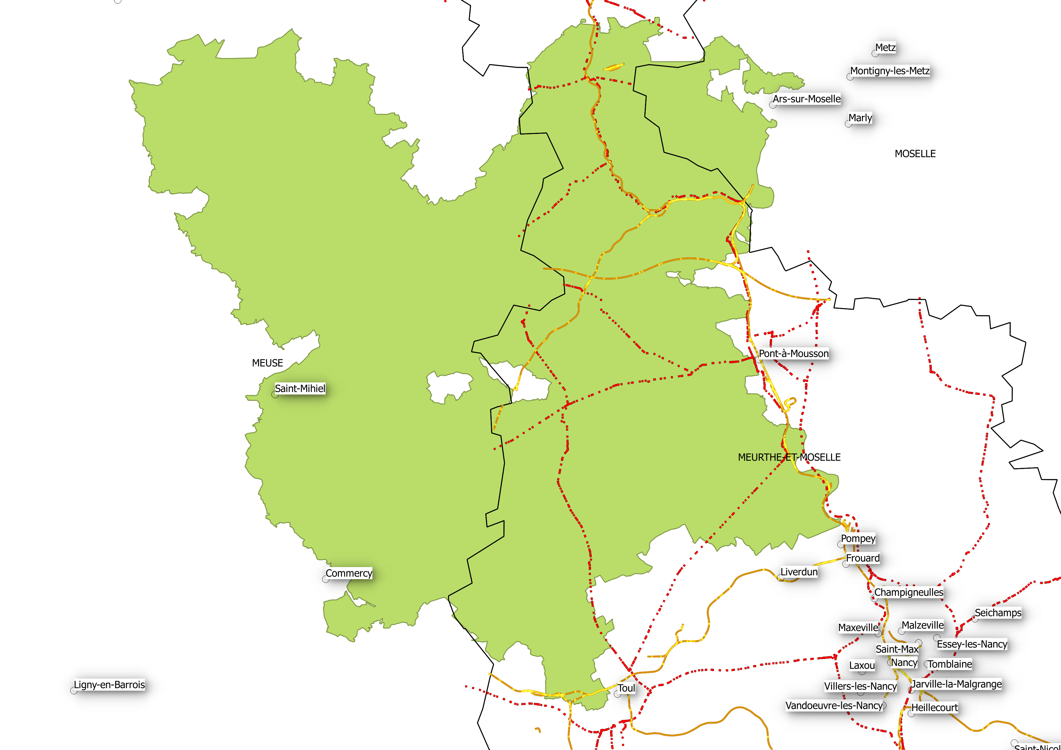 Perimeter of the Lorraine Regional Nature Park and limits of the Meurthe et Moselle department